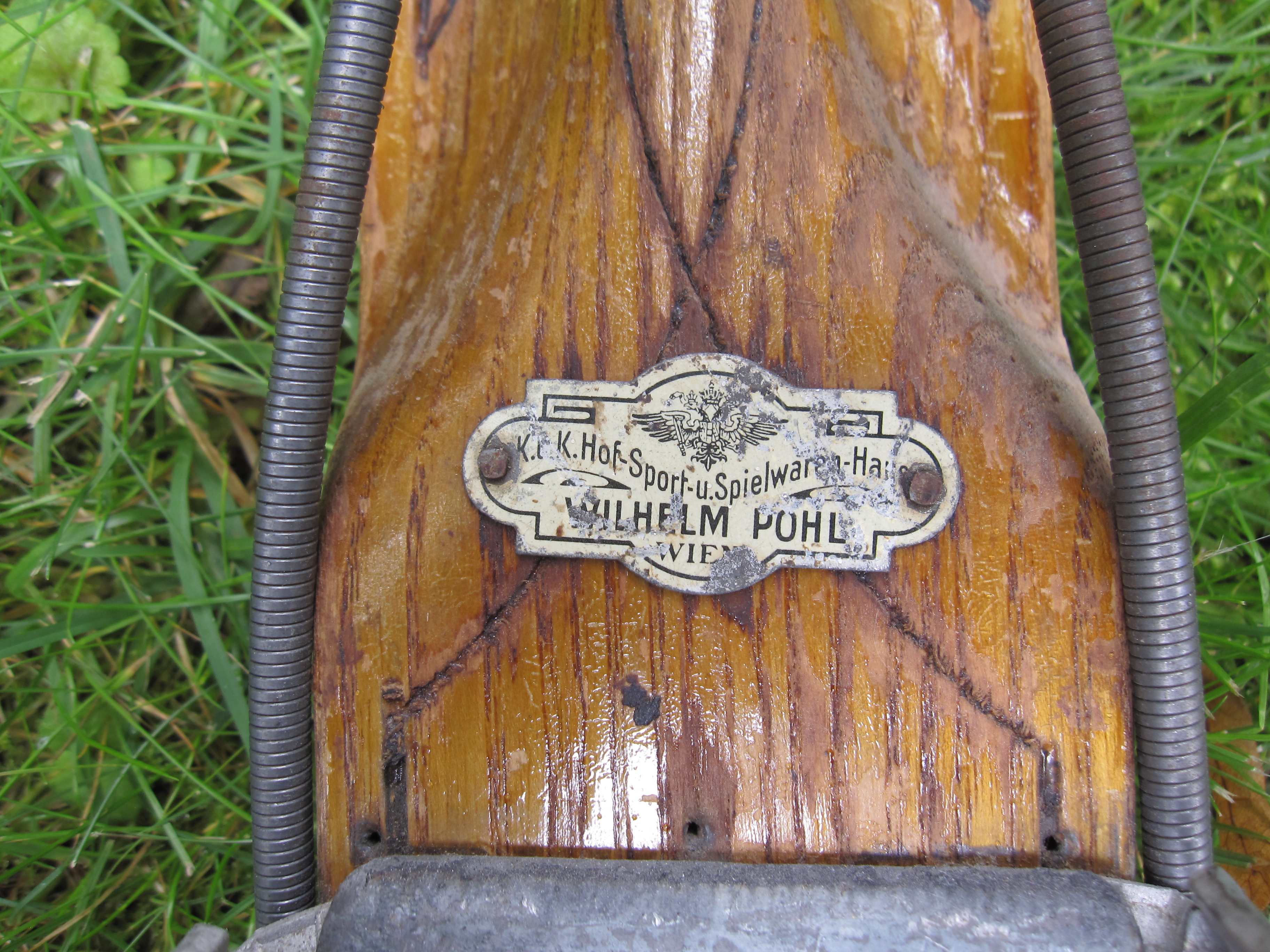 Ski by Wilhelm Pohl department store in Vienna.